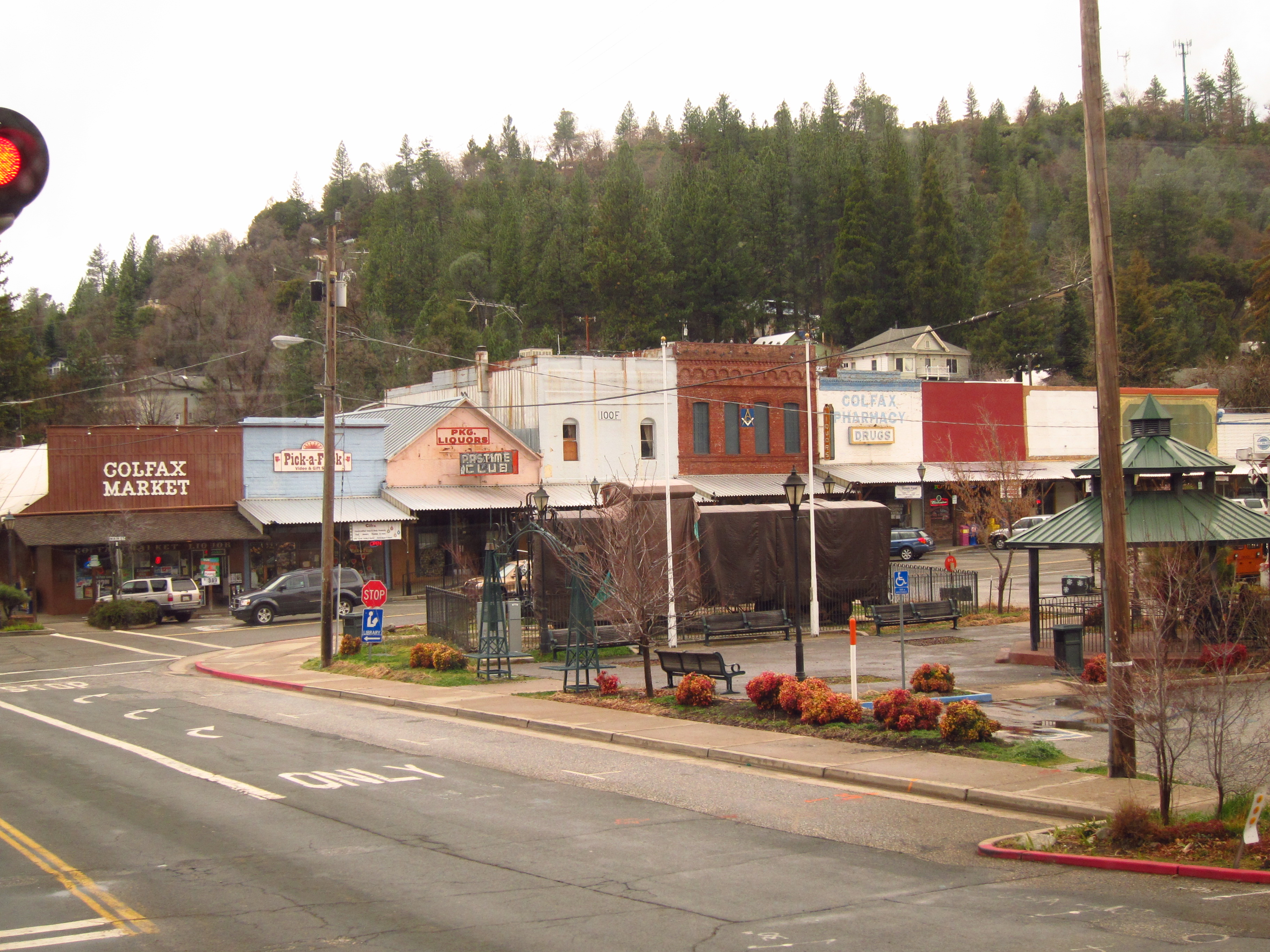 Town of Colfax, CA